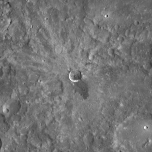 Waters crater, on Mercury. MESSENGER Wide Angle Camera mosaic. Image is approximately 164 km wide.